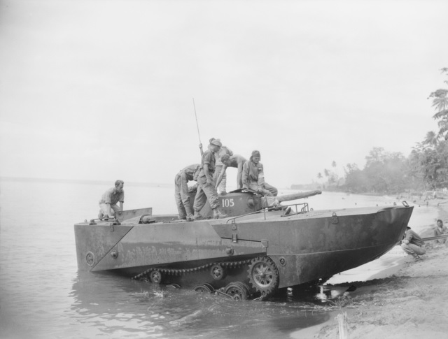 A Japanese Type 2 Ka-Mi Amphibious Tank coming ashore after trials carried out by members of 2/4 Armoured Regiment in Talili Bay, Rabaul, New Britain.